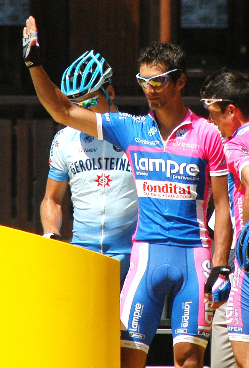 Bennati at the start of stage 8 in Le Grand Bornand, Tour de France 2007.